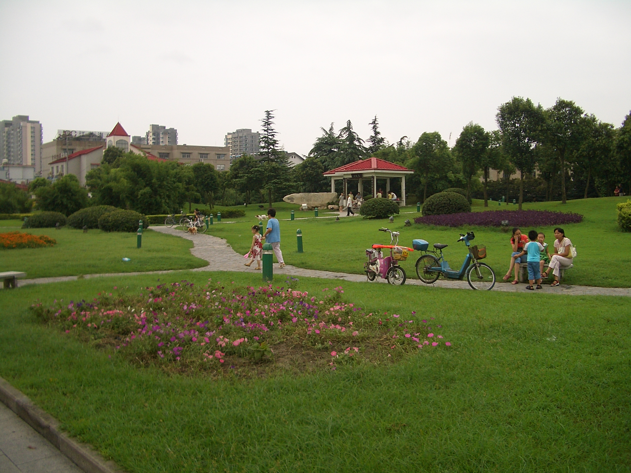 A public park at Wenchang Zhong Lu and Weiyang Lu, on the west side of Yangzhou. It is decorated with giant replicas of Han and Tang Dynasty bronze mirrors.